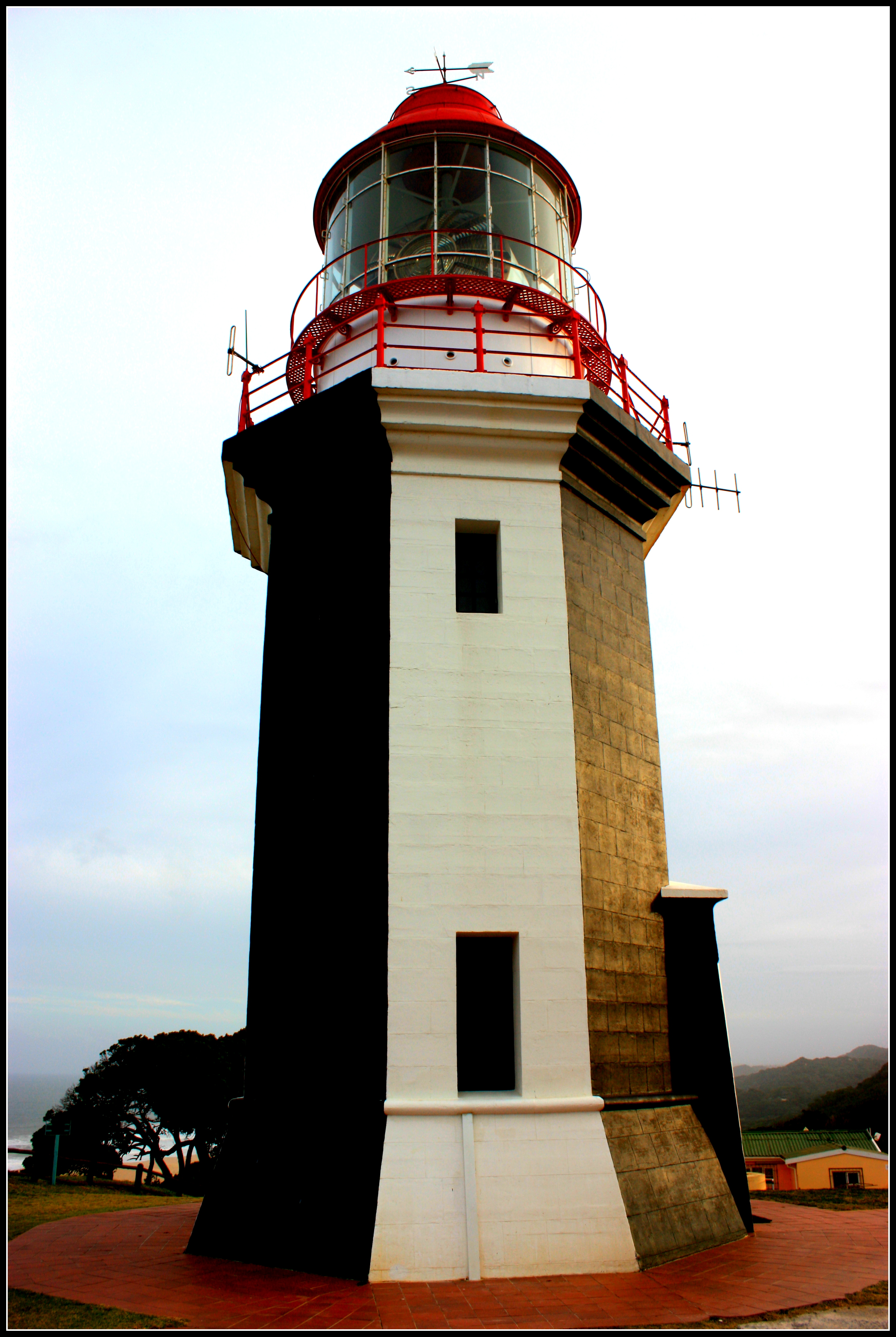 Near Port -Alfred